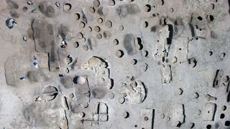 Felsőpákony, Hungary, aerial photography, excavation